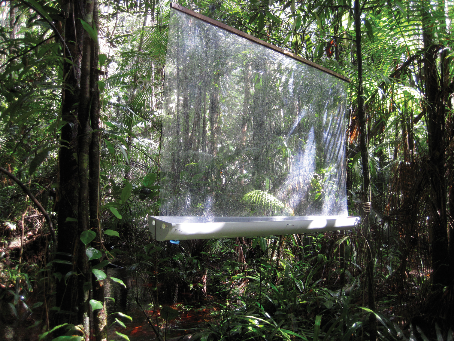 A modified windowpane trap